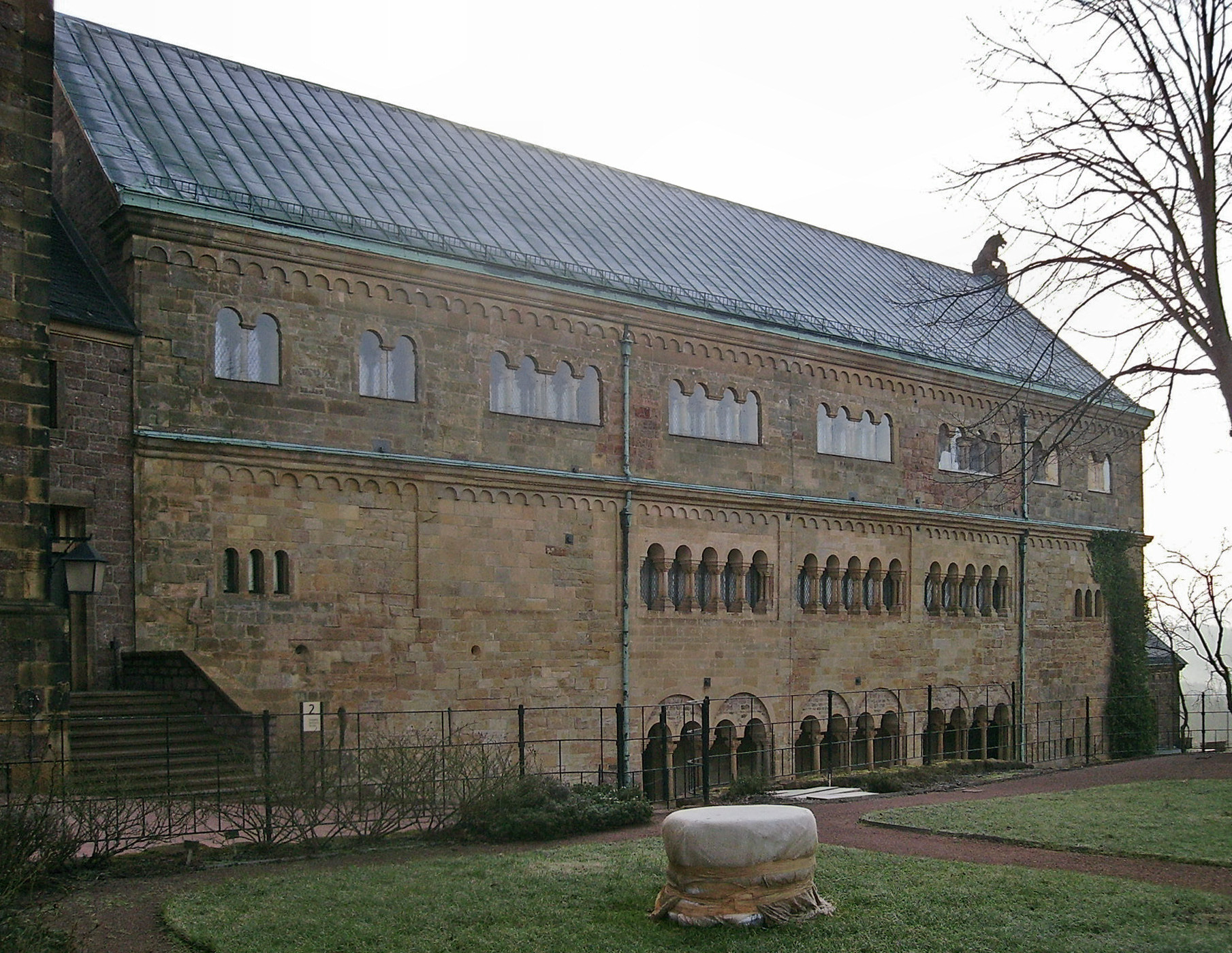 Palas of Wartburg in Eisenach